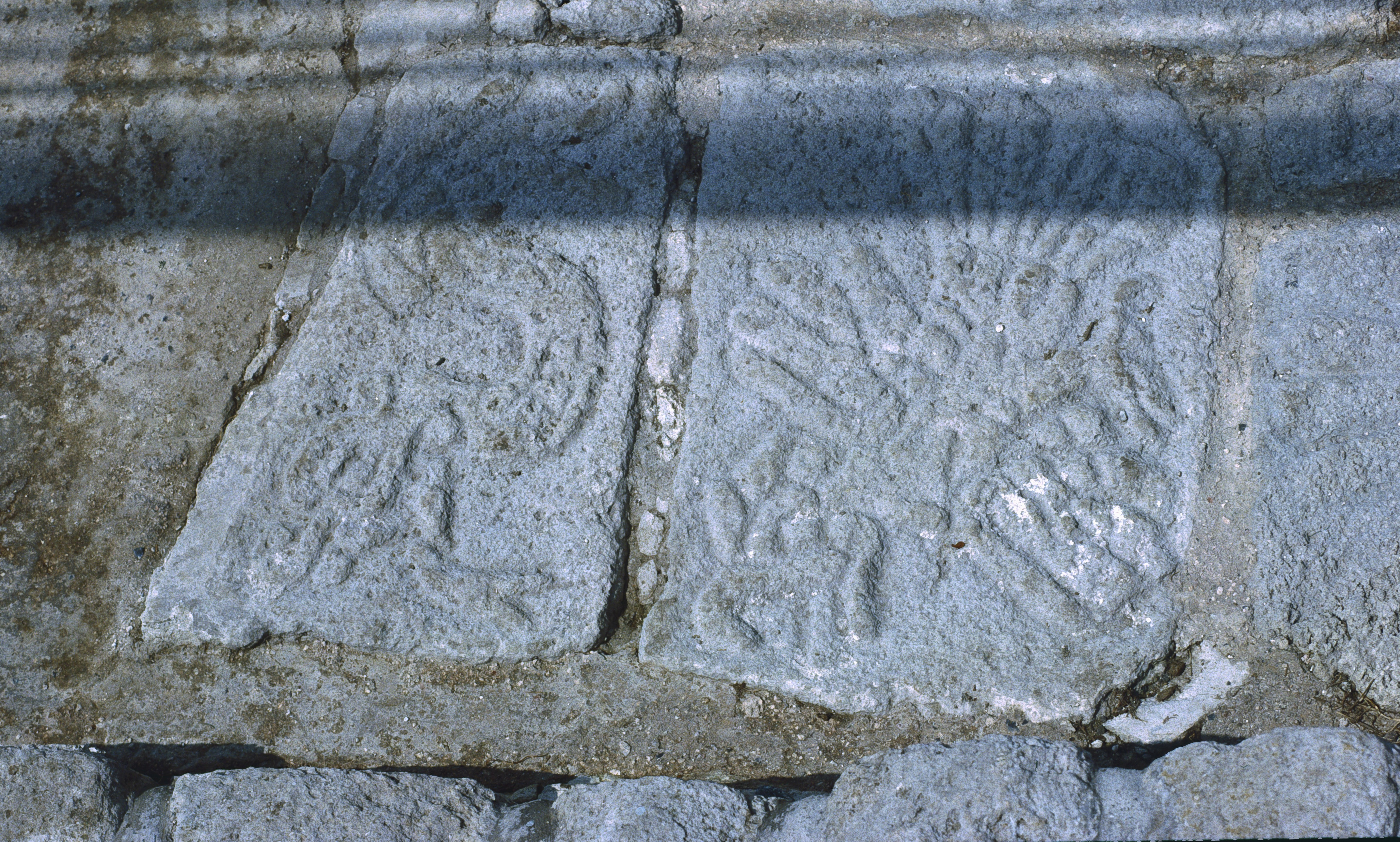 Xochicalco, Morelos, Mexico: eastern terrace, stone pavement mit reliefs